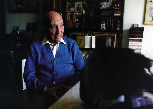 This image was captured during one of the key interviews granted by Mr. Bajarlia for the documentary film “Desandando el tiempo”.